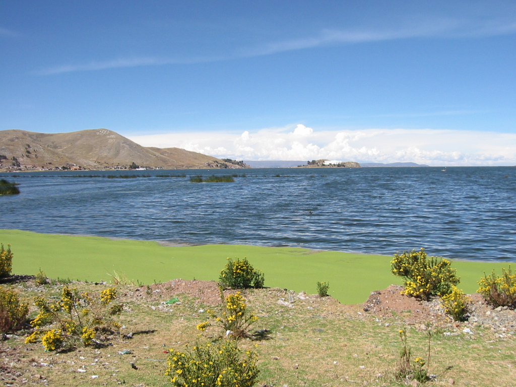 Lake Titicaca near Puno